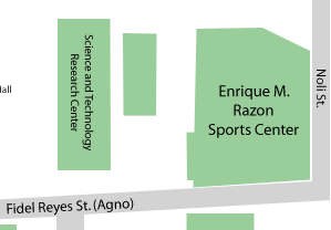 Location marker of Enrique Razon Sports Center of DLSU-Manila taken from a self-made campus map.